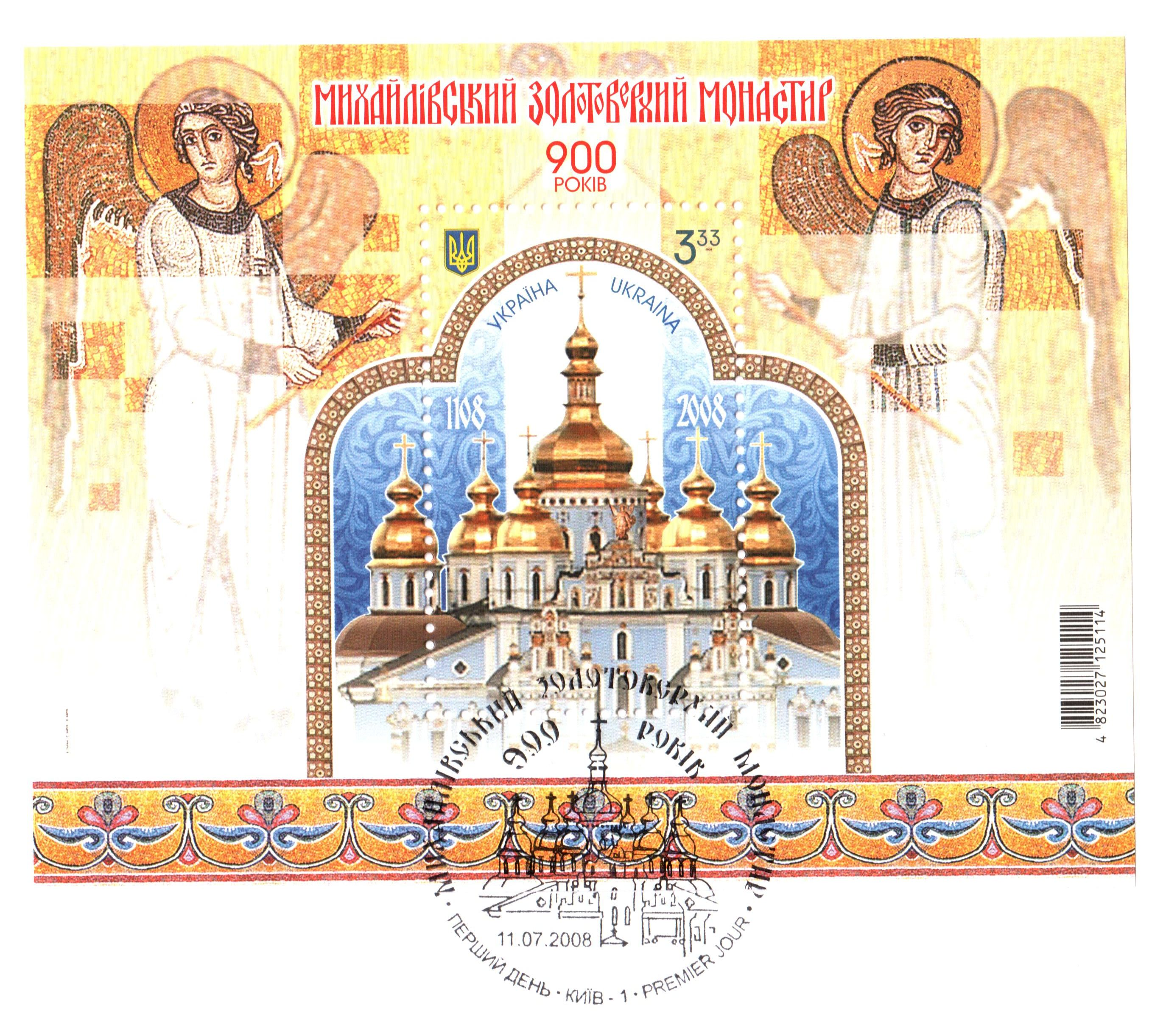 900th anniversary of the St. Michael's Golden-Domed Monastery in Kiev. Souvenir sheet, First Day Cover (fragement), 2008.